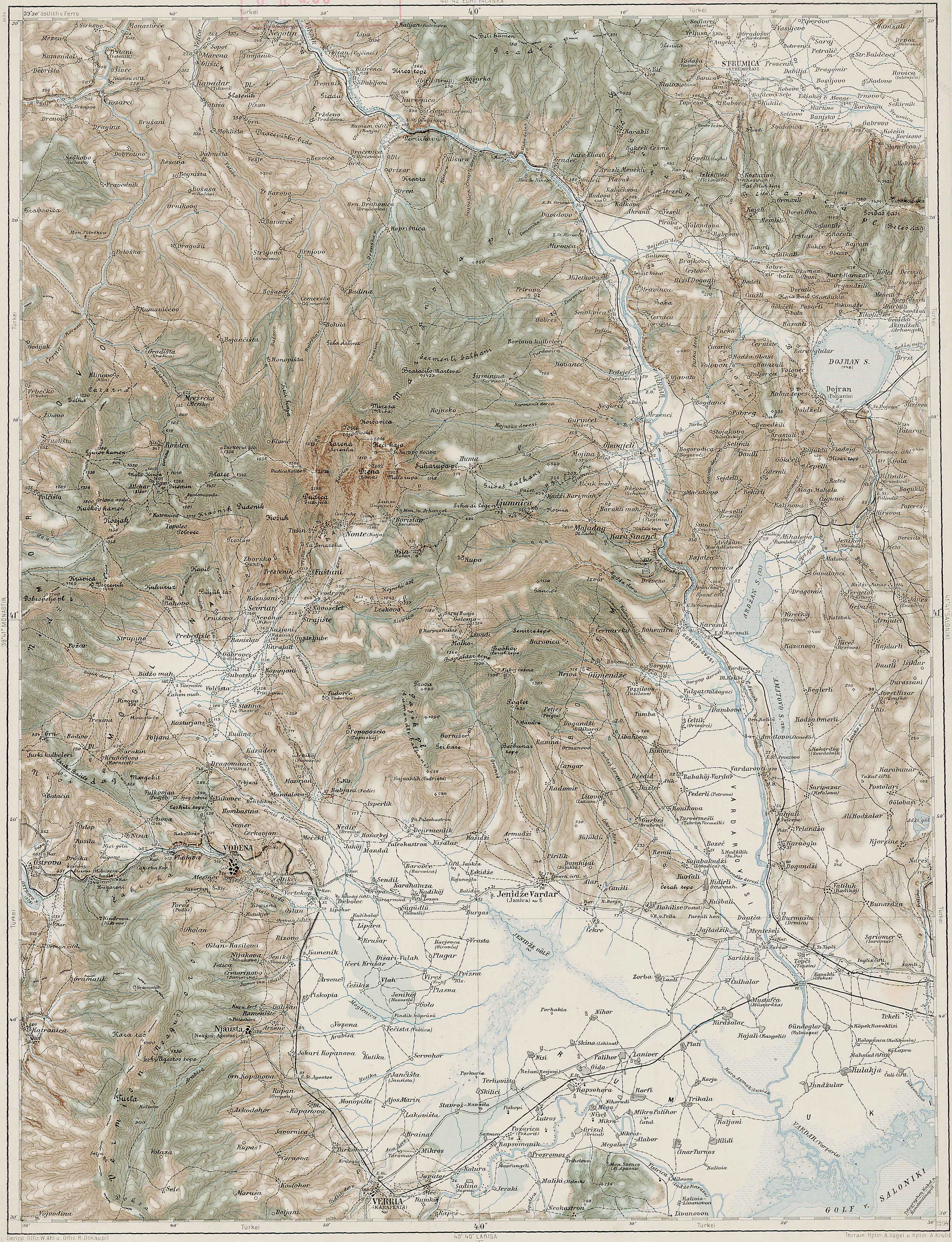 3rd Military Mapping Survey of Austria-Hungary - Vodena